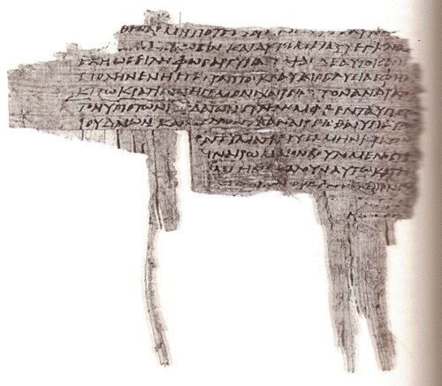 Papyrus 48 verso